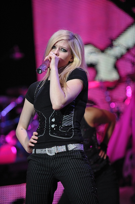 Avril Lavigne performing at the Heineken Music Hall, in Amsterdam, Netherlands.